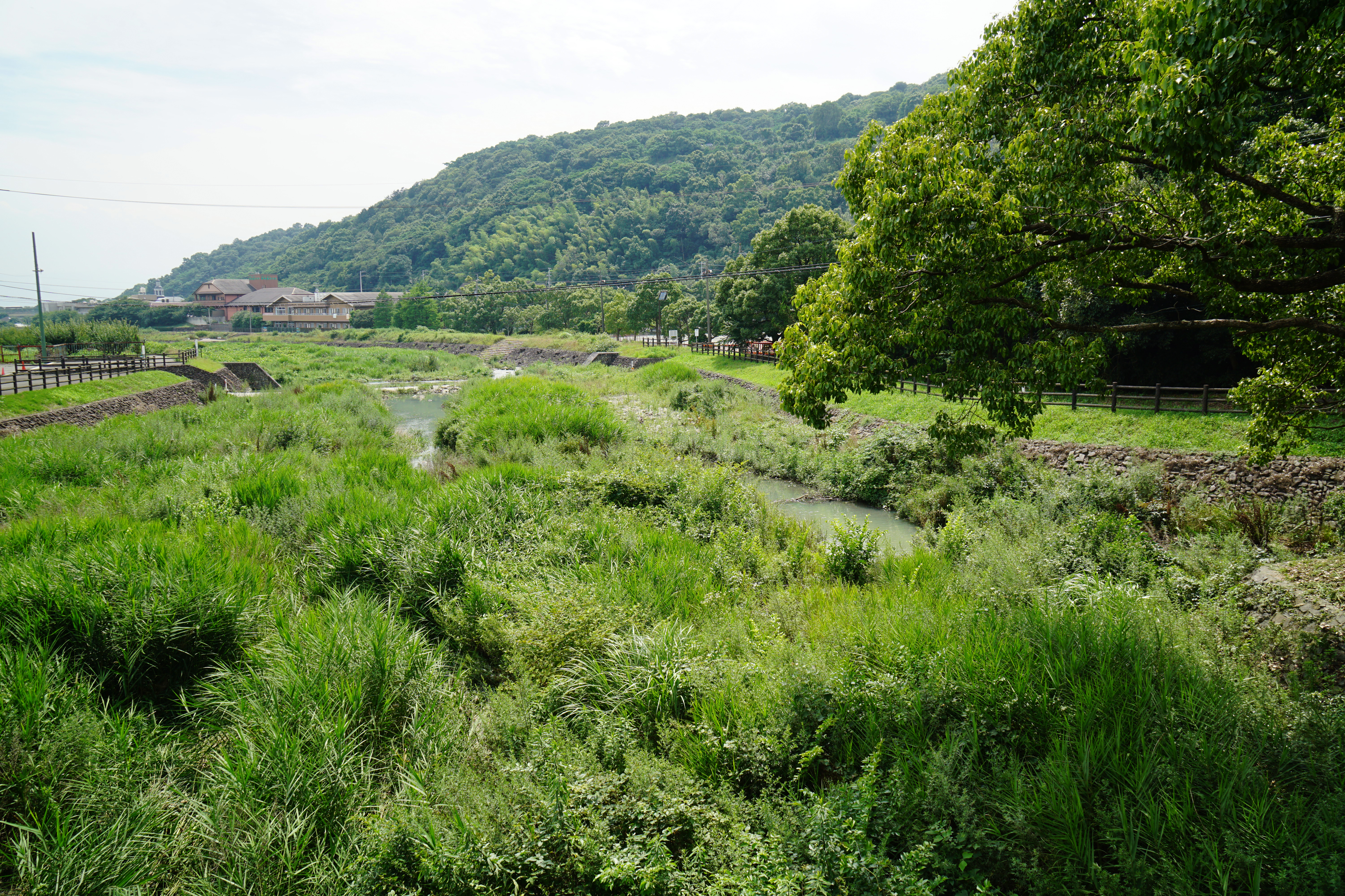 Bandotani River in Naruto, Tokushima prefecture, Japan.